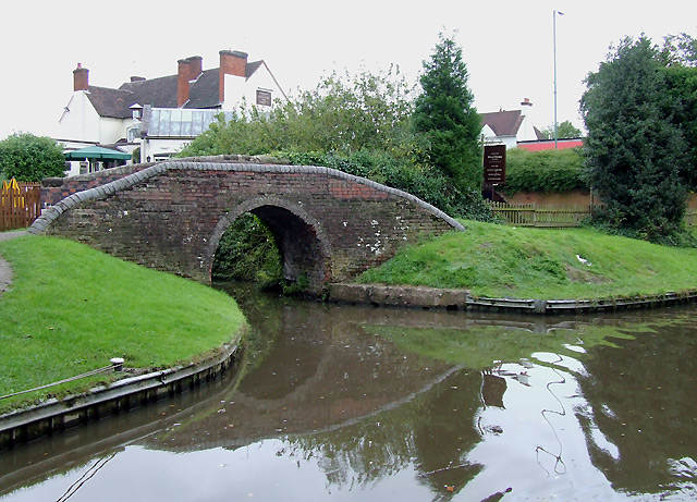 Bridge by former wharf at Hockley Heath, Solihull. This short arm of the Stratford-upon-Avon Canal by the Stratford Road (A4300) originally led to a coal wharf. The aptly named Wharf Inn (now renamed Wharf Tavern - far more trendy!) can be seen by the road overlooking it. 1704553 The Stratford-upon-Avon Canal was built from King's Norton Junction (with the Worcester and Birmingham Canal) to Kingswood Junction (with the Warwick and Birmingham Canal - now Grand Union Canal) by 1803. A second phase of construction started in 1812, and by 1815 was connected to the River Avon in Stratford. Total length 25.5 miles, with 54 locks.